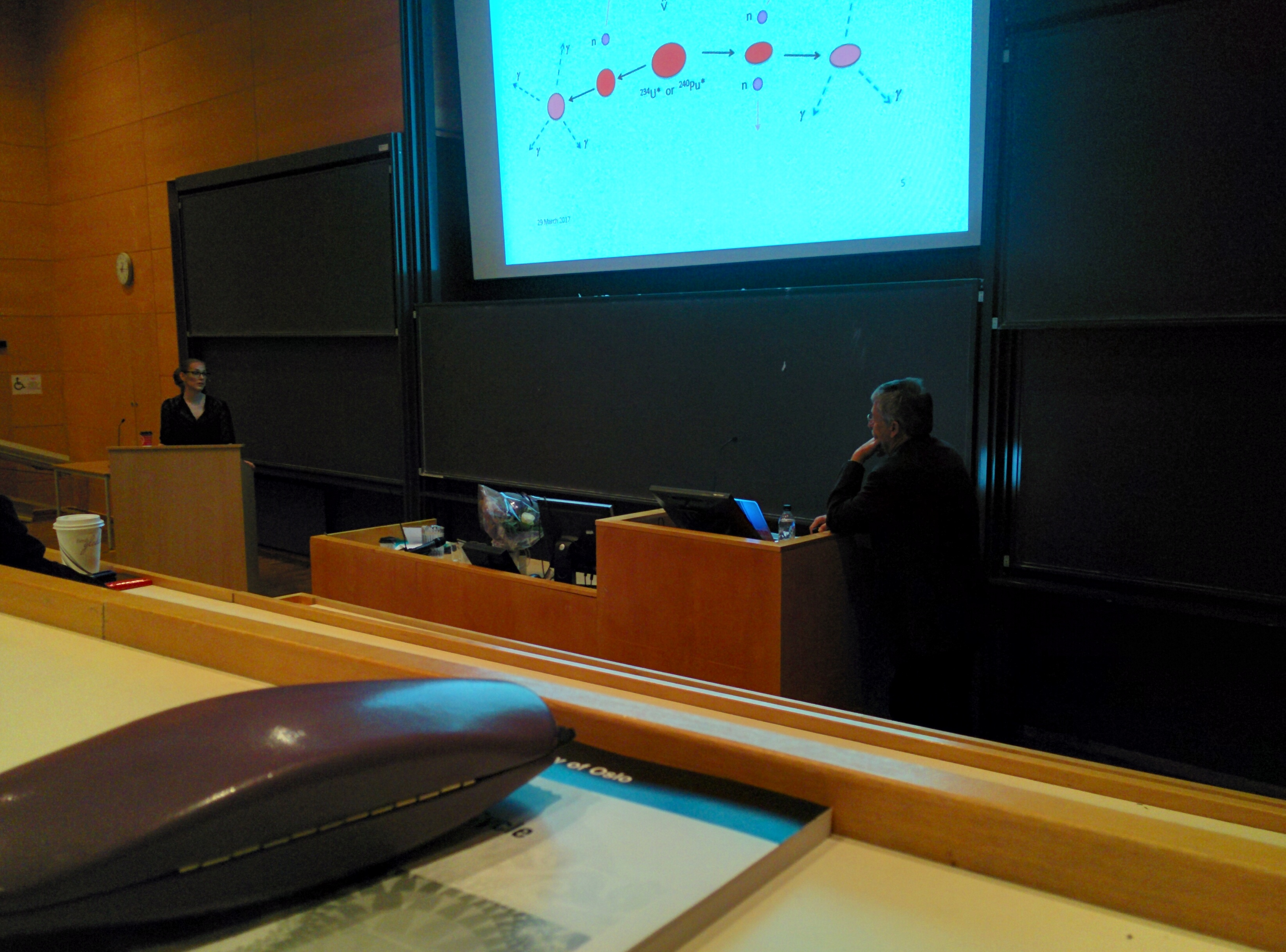 Sunniva Rose defending her PhD Thesis at the Helga Engs Hus at the University of Oslo